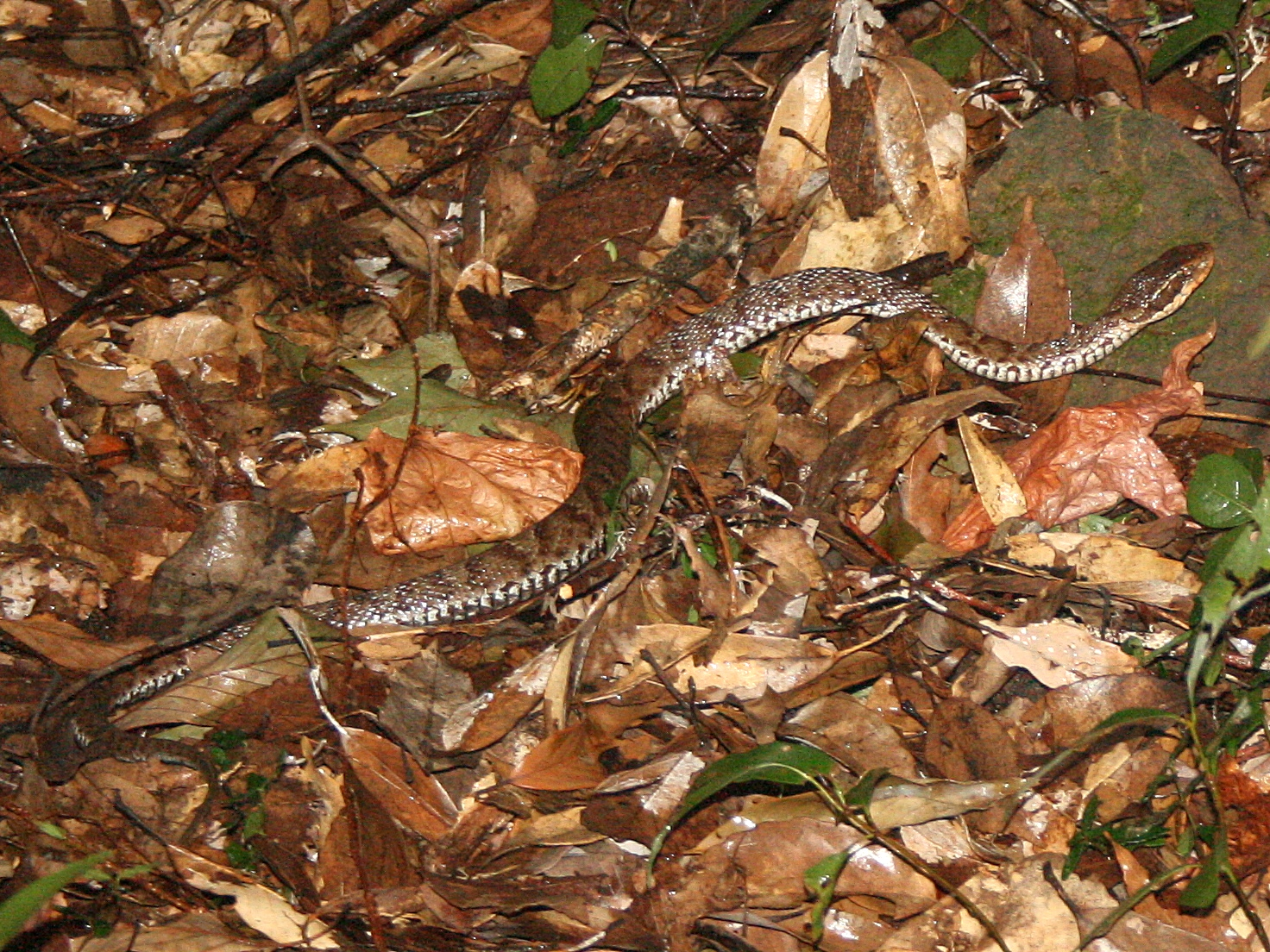 A Gloydius Ussuriensis snake on the forest floor. Observed in the Gotjawal Forest, in the Dong Baek Dong San (the Camelia Forest) habitat, on Jeju Island, off South Korea.